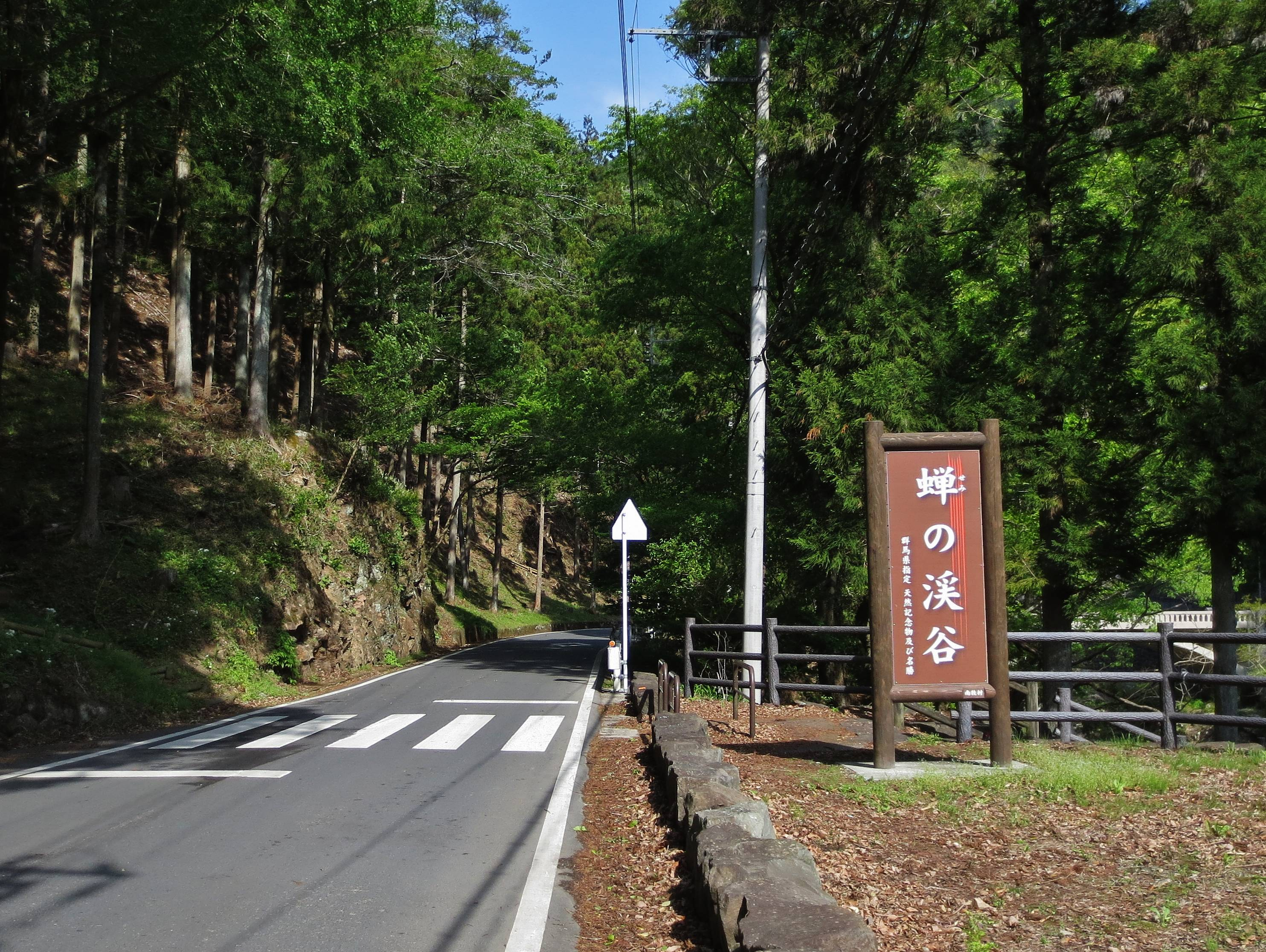 Semi Valley (Nanmoku, Gunma).